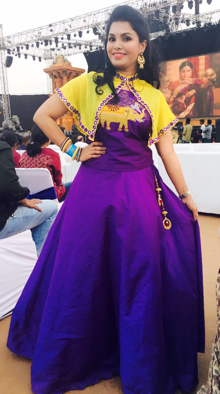 Sreenidhi at Baahubali - The Conclusion Pre Release function